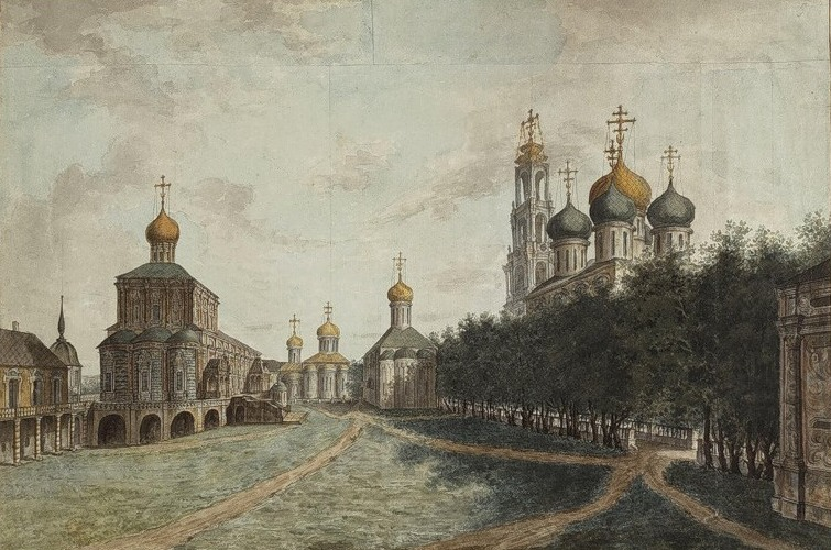 en: Fedor Alekseev Title